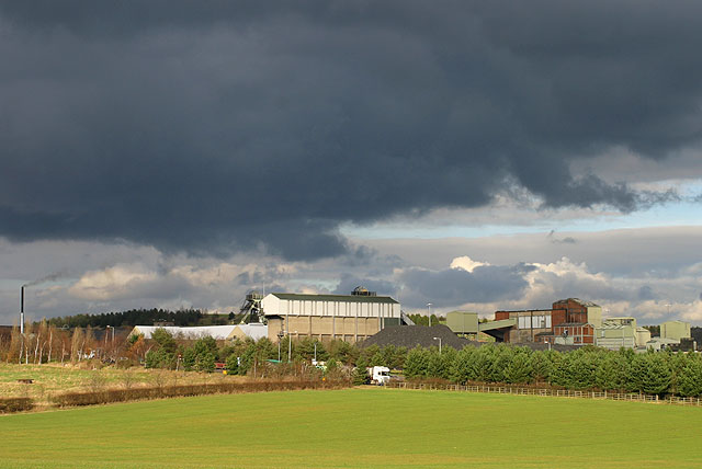 Thoresby Colliery A black cloud hangs over Thoresby Colliery. A portent for the coal industry?